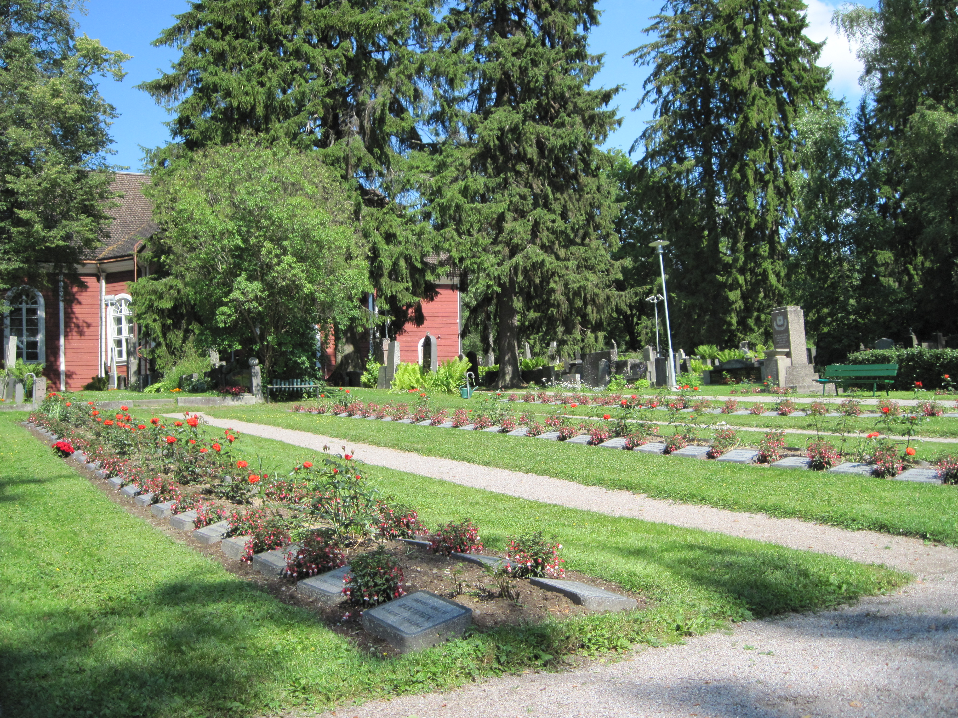 Military cemetary at church in Teisko, Finland